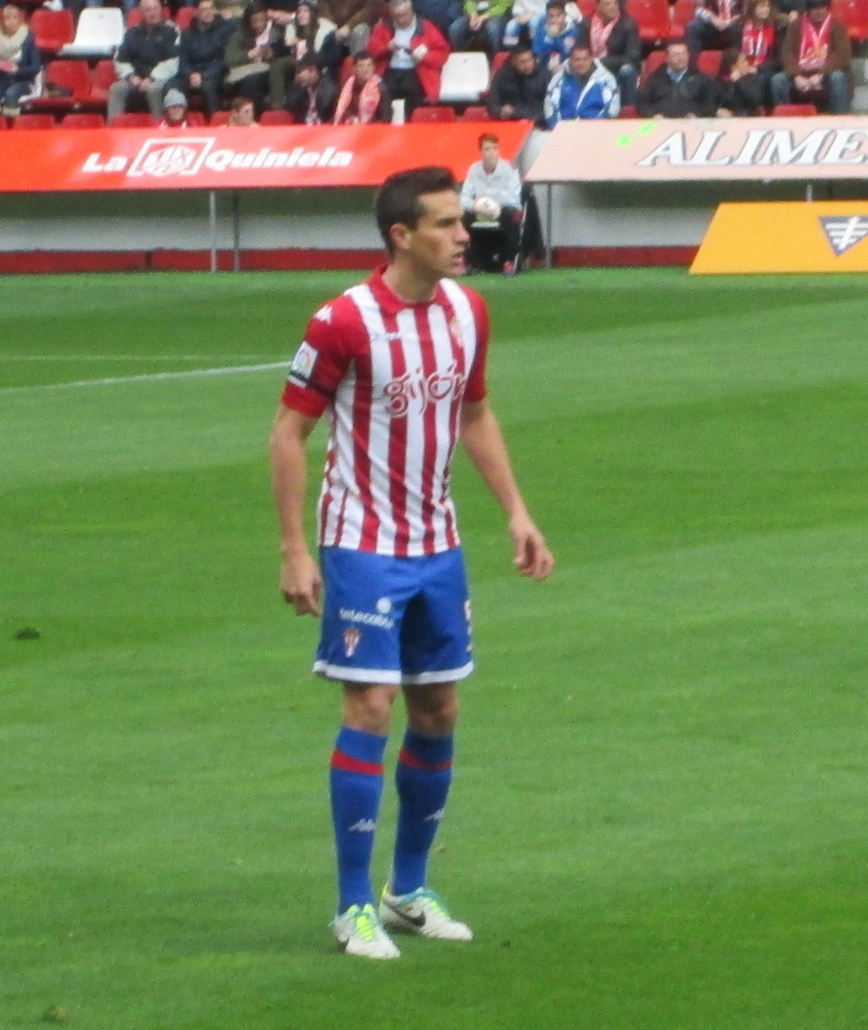 Bernardo Espinosa, playing for Sporting de Gijón